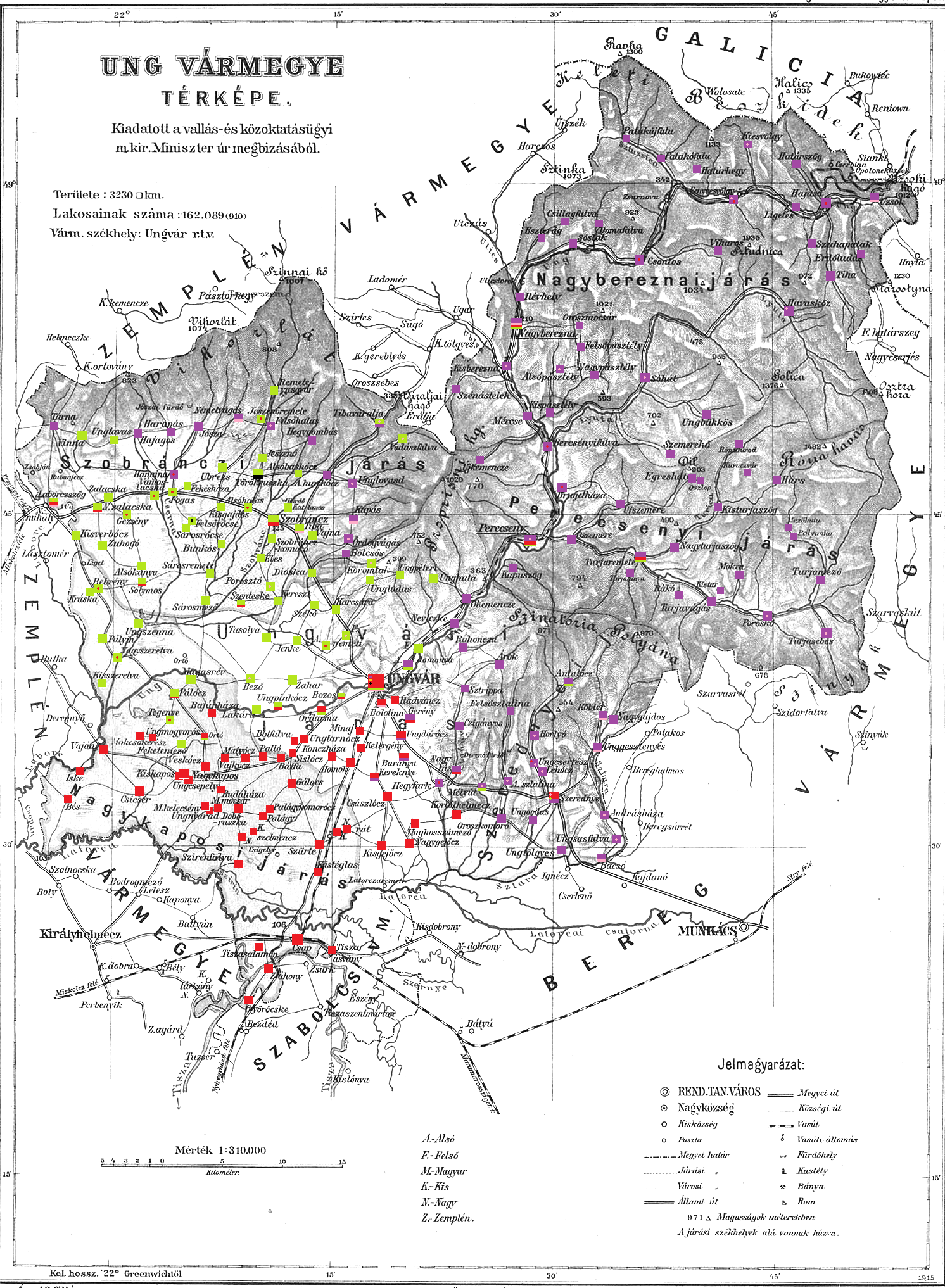 Ethnic map of the county (with data of the 1910 census). Key: red - Hungarians; light green - Slovaks; violet - Ruthenians; pink - Germans; black - Roma; orange - Polish. Coloured dots in plain rectangles imply the presence of smaller minority populations (generally more than 100 people or 10%). Multicoloured rectangles imply cities and villages with multi-ethnic populations with the order of the stripes following the ethnic composition of the settlement.